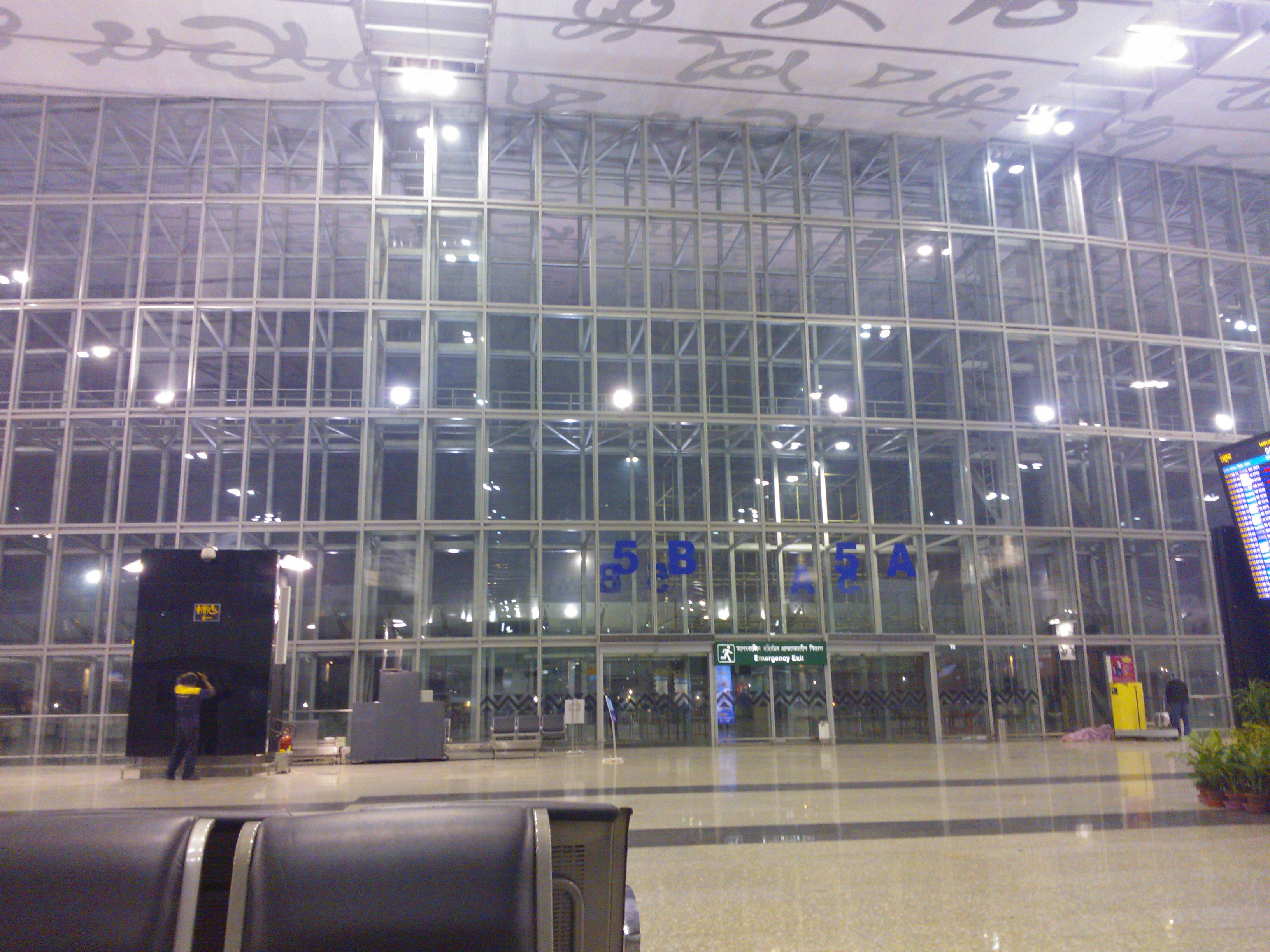 Netaji Subhash Chandra Bose International Airport